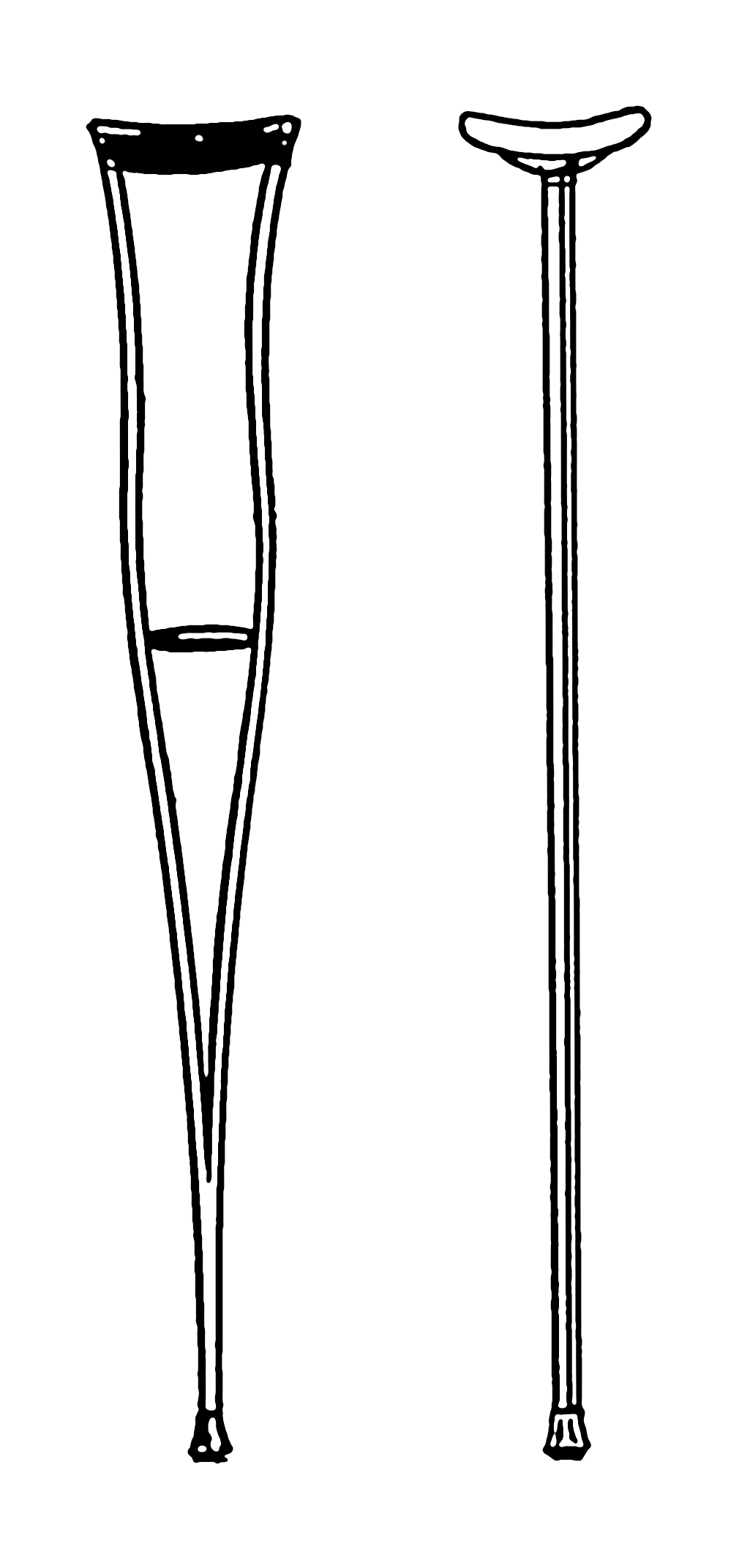 Line art drawing of two forms of crutches.